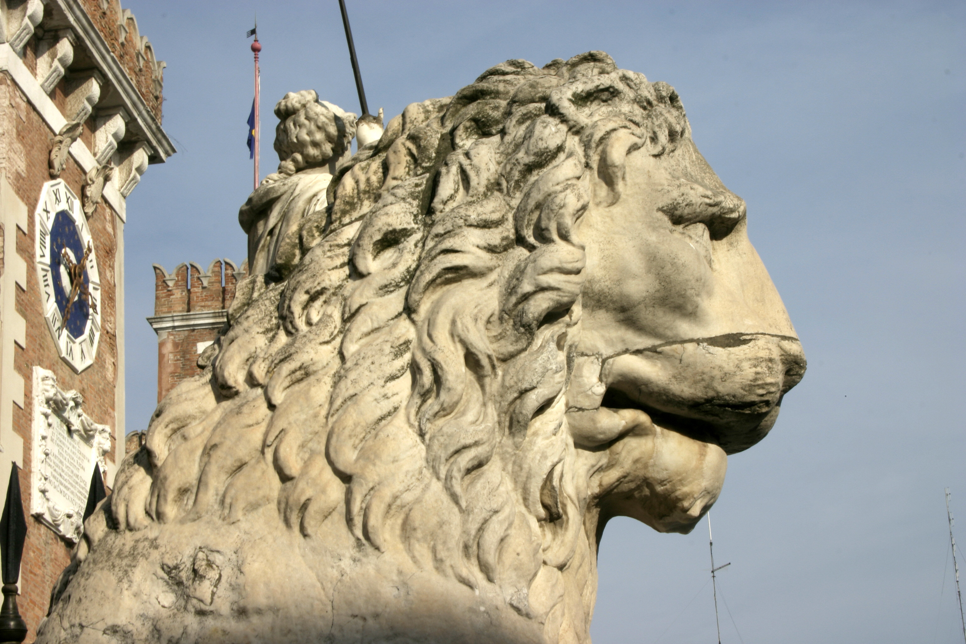 Venice – Lion at the Arsenal